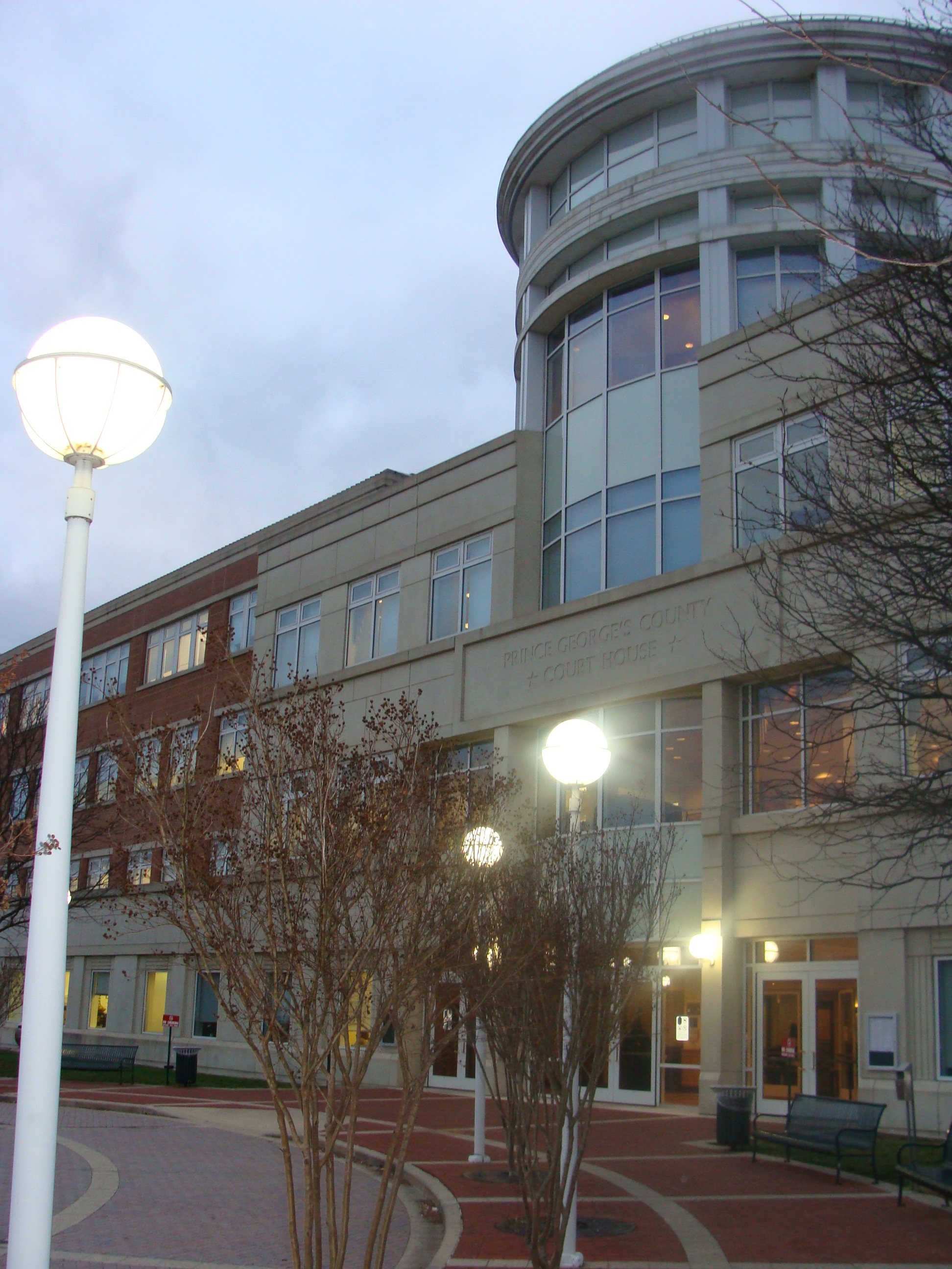 Photograph of the main entrance to the PG judicial courthouse